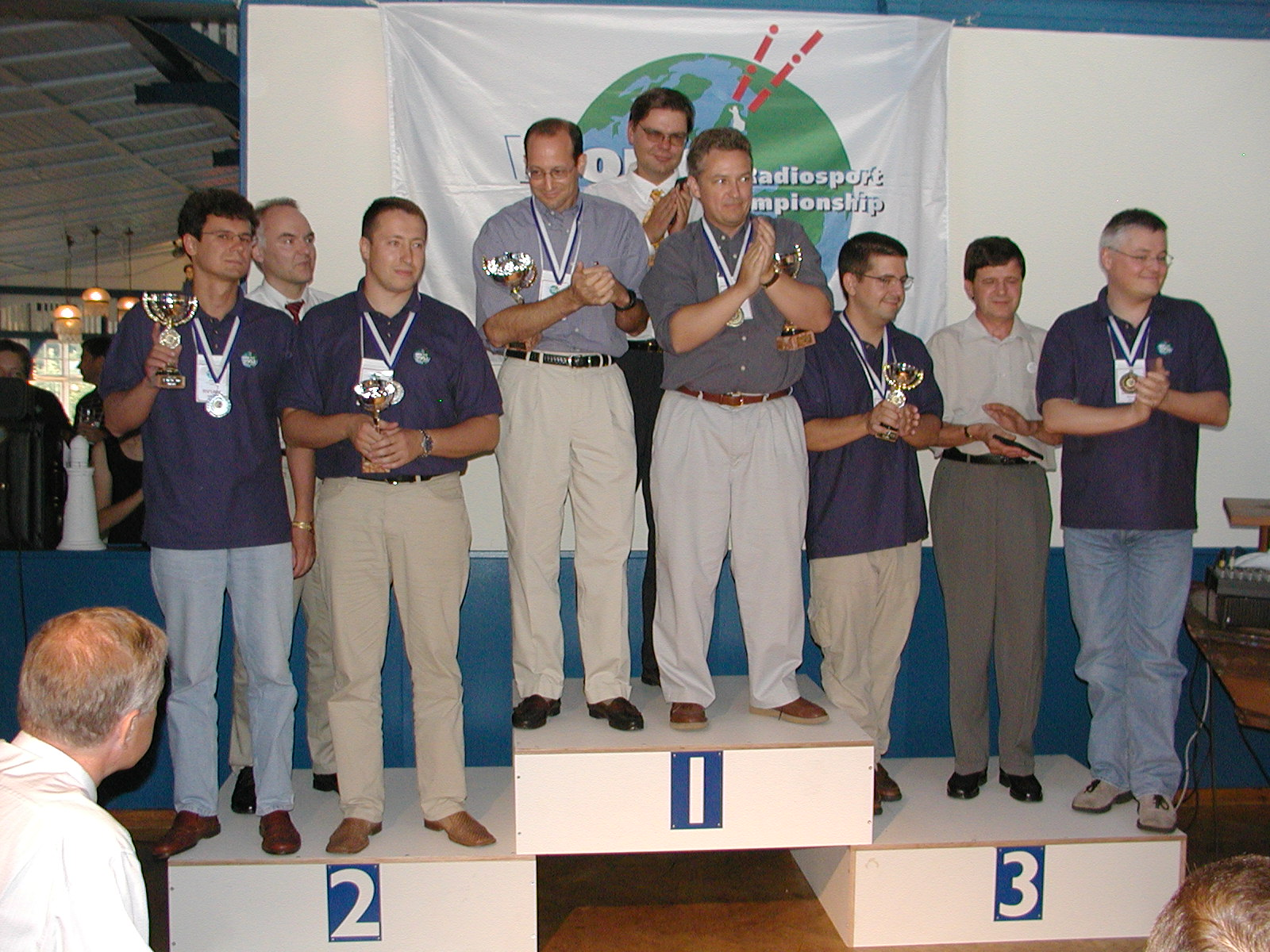 Champions of the 2002 World Radiosport Team Championship (WRTC), Helsinki, Finland Pictured on the awards stand, with station hosts from Finland: 1st place: Jeff Steinman, N5TJ (L) and Dan Street, K1TO (R) of the United States 2nd place: Andrei Karpov, RV1AW (L) and Igor Booklan, RA3AUU (R) of Russia 3rd place: Frank Grossmann, DL2CC (L) and Bernd Och, DL6FBL (R) of Germany